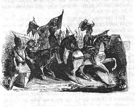 Engraving from the book Historia del reinado de D. Pedro Primero de Castilla, llamado El Cruel.